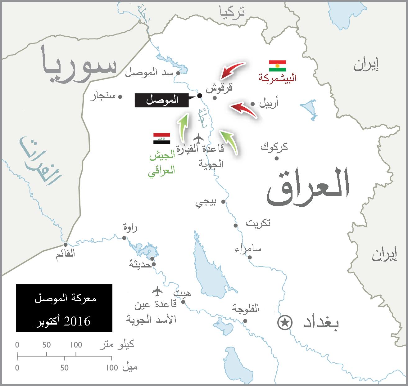 nfomap of Iraq - Battle of Mosul, October 2016; based on Department of Defense map of Iraq